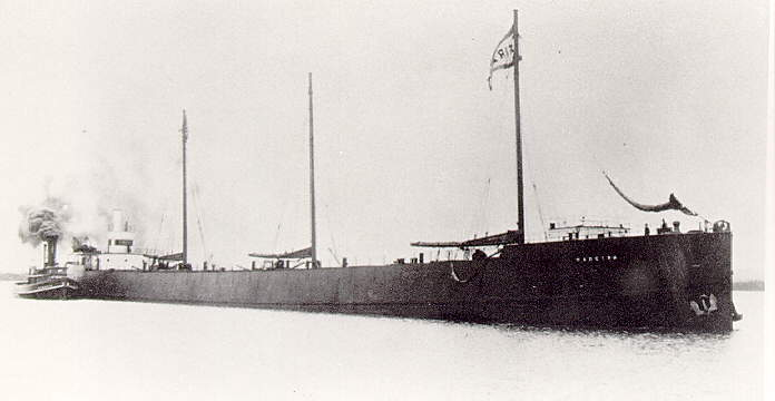 A historic picture of the Madeira (shipwreck) from the starboard bow.